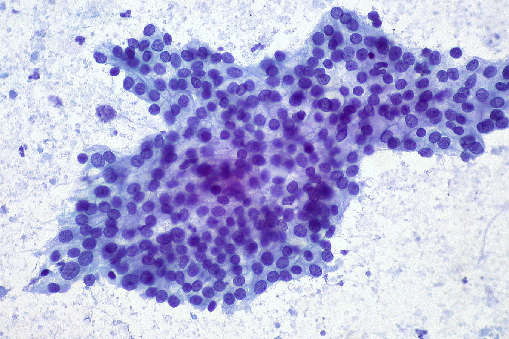 This is one of the better differentiated areas, showing a flat sheet with prominent honeycombing. The disorganization, nuclear overlapping, and lack of uniform nuclear spacing provides a clue that is this adenocarcinoma (as opposed to non-neoplastic duct epithelium). However, if all I had was a paucicellular specimen consisting of a few such sheets, I would likely back off and call it nothing higher than "suspicious" for adenocarcinoma. Fortunately from a diagnostic standpoint, all of the other clinical, radiographic, and cytological findings pointed overwhelmingly at a diagnosis of malignancy, which made this case more straighforward than it could have been with a meager specimen and inadequate clinical and radiographic information. Pancreatic adenocarcinomas can be very well differentiated, a fact that raises the risk of both false-positive and false-negative diagnoses. It is important to secure a good specimen (which requires immediate assessment by a pathologist or cytotechnologist during the procedure), as well as accurate and complete clinical info. In most freestanding imaging centers, with no on-site pathology coverage, these aspects are often ignored. I strongly recommend that patients have radiographically-directed biopsies performed only in facilities with pathology coverage on site. Pathological and histological images courtesy of Ed Uthman at flickr.